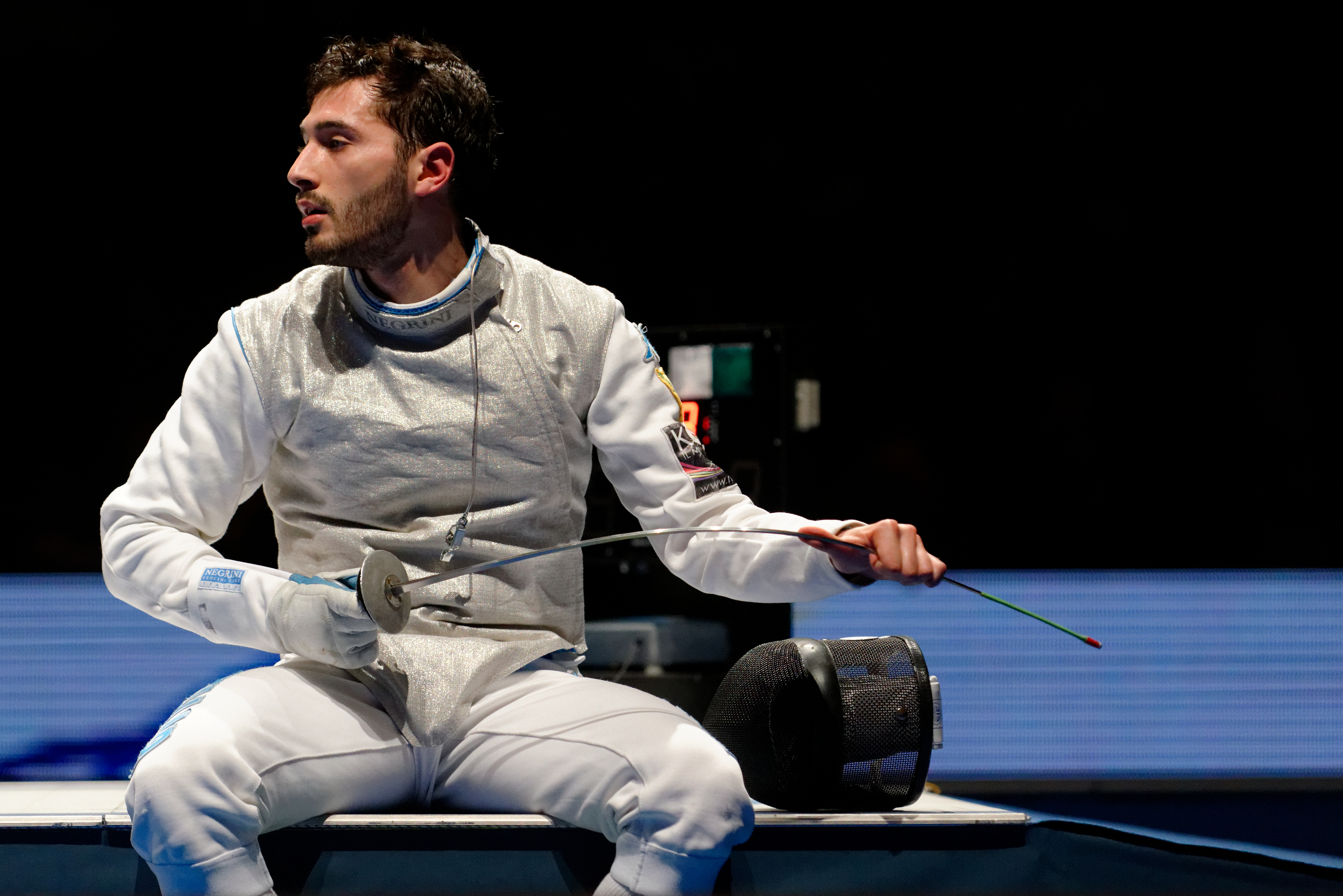 Giorgio Avola during his semi-final of the Challenge international de Paris 2013 (foil World Cup tournament) against Andrea Baldini.